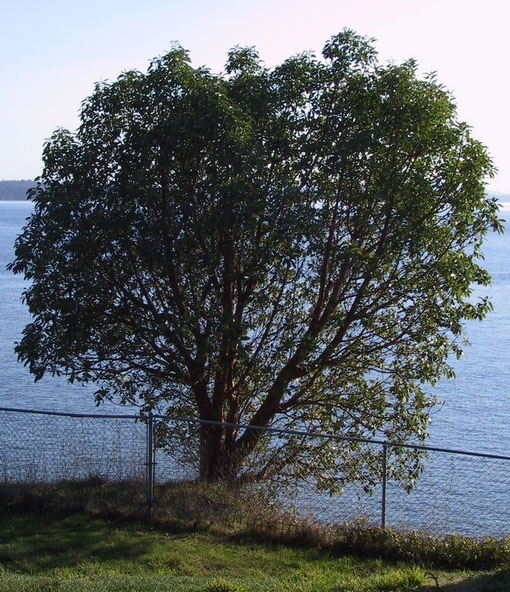 An Arbutus tree on Pender Island, British Columbia, Canada